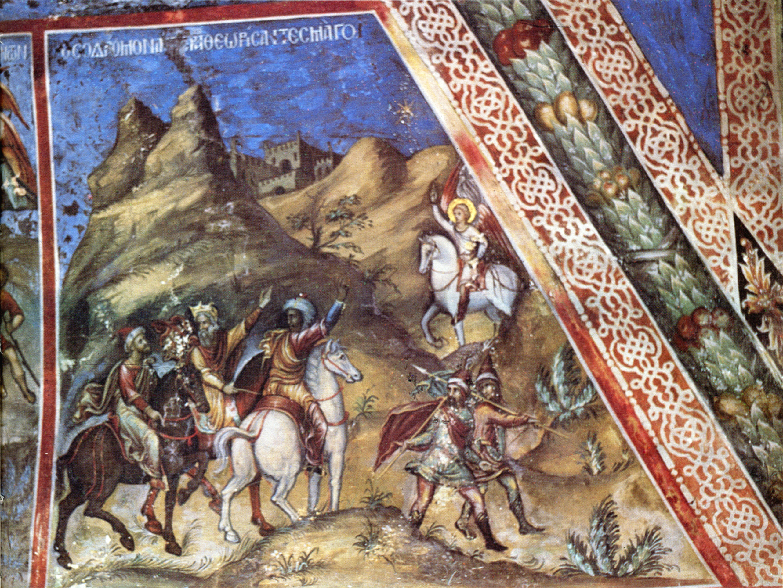 Fresko in Lampadistis Monastery, Kalopanagiotis, Cyprus, showing the three biblical Magi